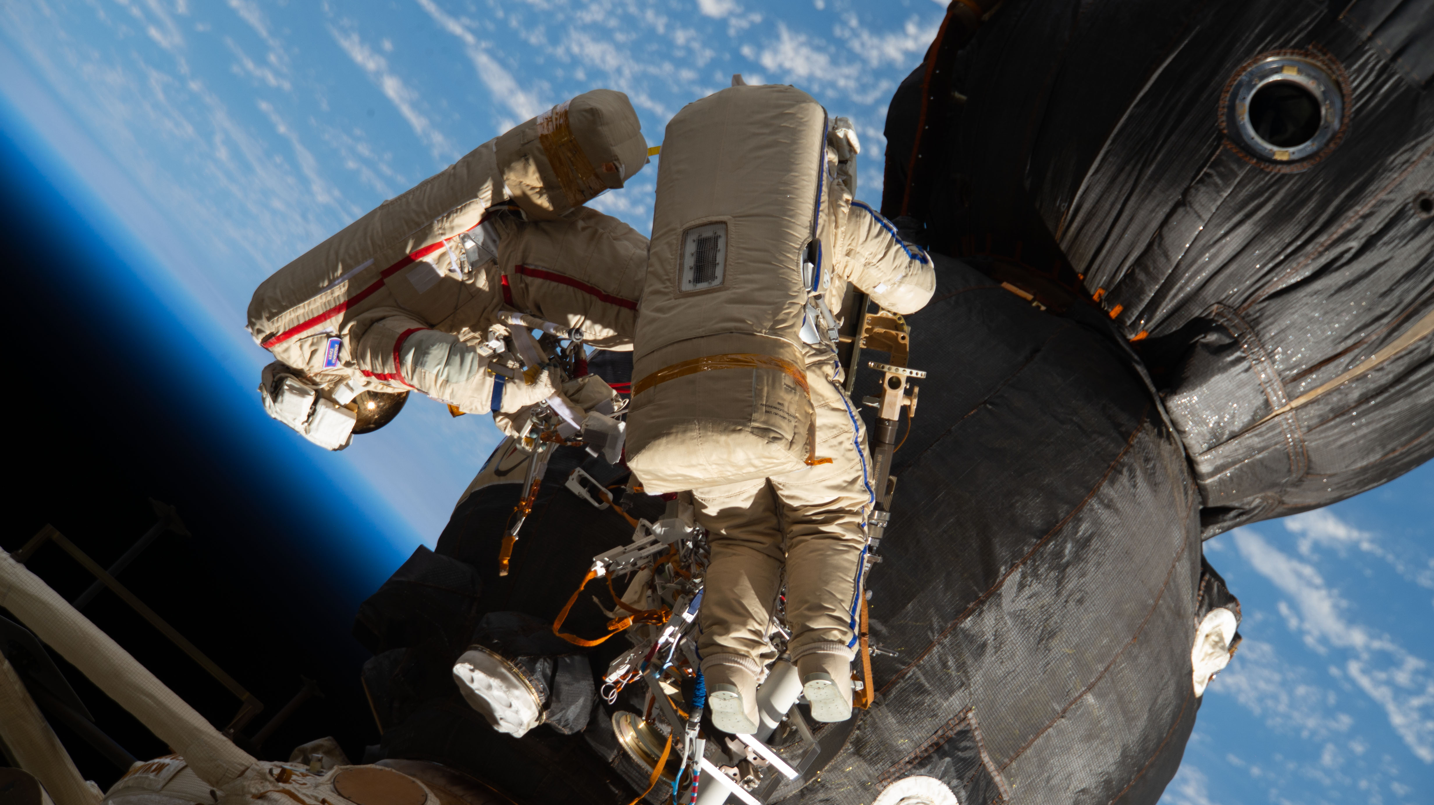 Russian spacewalkers Oleg Kononenko (suit with red stripes) and Sergey Prokopyev (suit with blue stripes) work outside the International Space Station over 250 miles above Earth to inspect the Soyuz MS-09 spacecraft. During the spacewalk, the two examined the external hull of the Soyuz crew ship docked to the Rassvet module, took images and applied a thermal blanket. They also retrieved science experiments before heading back inside the Pirs docking compartment and closing the hatch completing a seven-hour, 45-minute spacewalk.the duo examined the external hull of the Soyuz crew ship docked to the Rassvet module. The area corresponded with the location of a small hole inside the Soyuz habitation module that was found in August and caused a decrease in the space station’s pressure. The hole was fixed internally with a sealant within hours of its detection. During the spacewalk, Kononenko and Prokopyev collected samples of some of the sealant that extruded through hole to the outer hull before heading back inside the Pirs docking compartment and closing the hatch completing a seven-hour, 45-minute spacewalk.